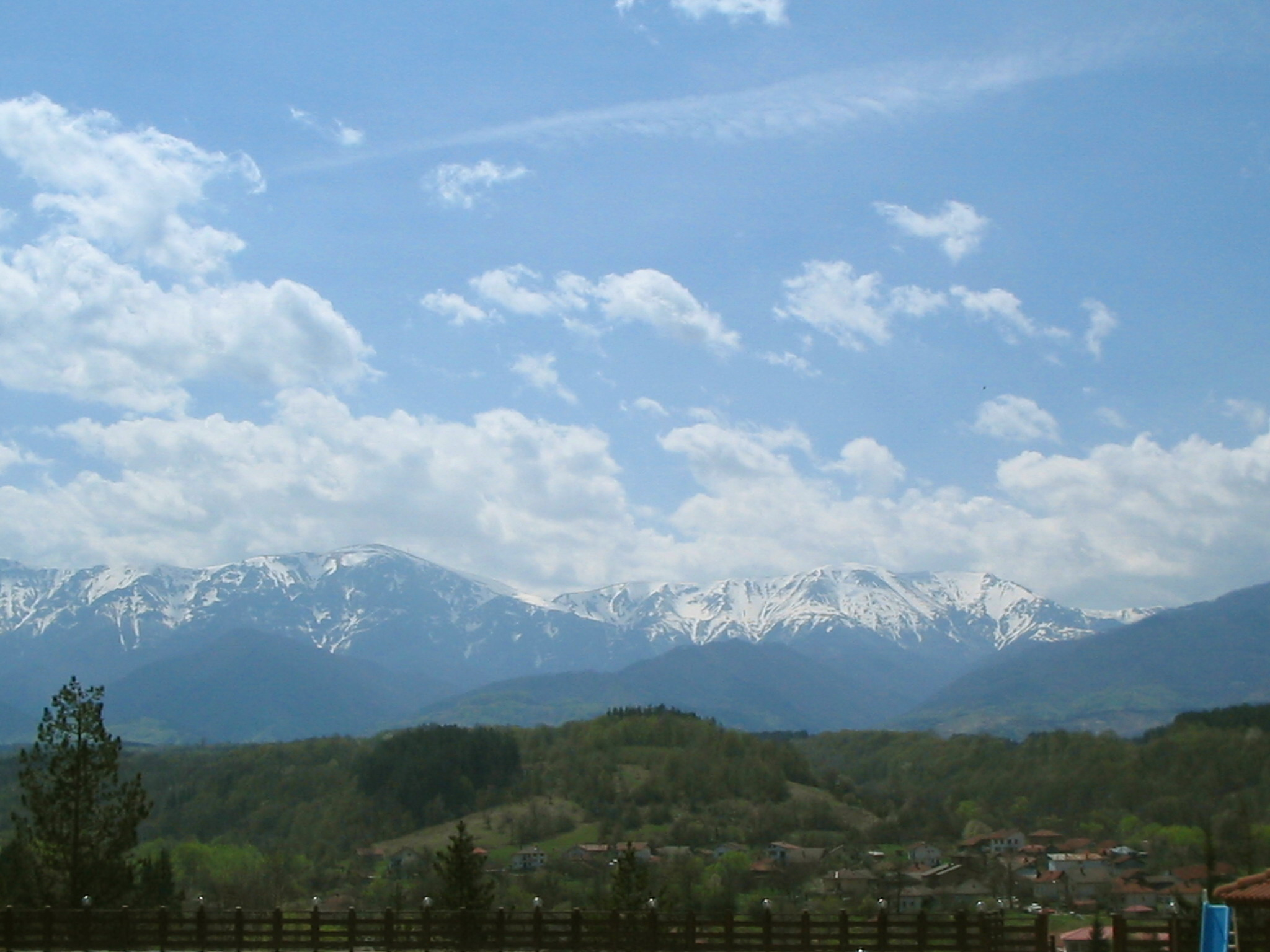 Central Balkan-Apriltzi-Bulgaria